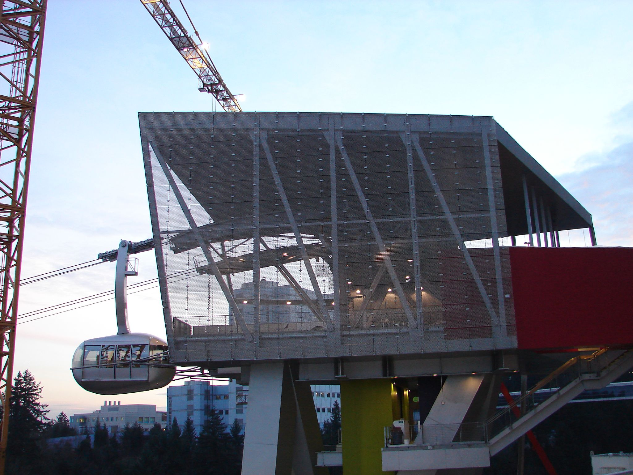 The Portland Aerial Tram in Portland, Oregon. View of the OHSU (upper) station.